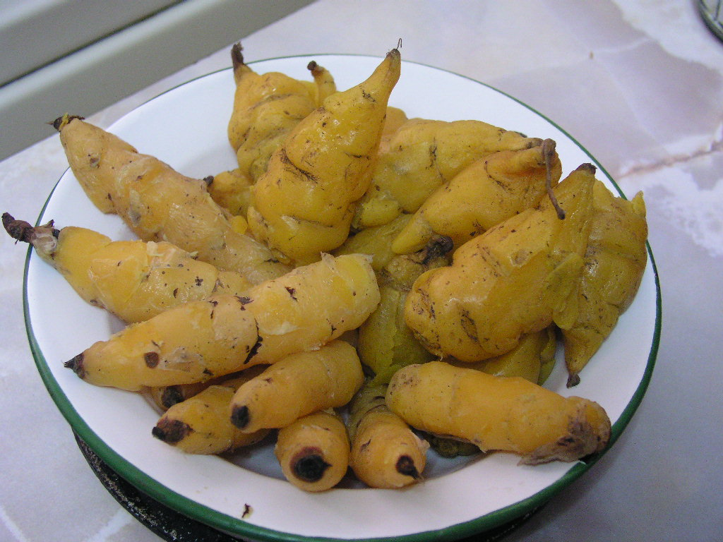 Peruvian food: Oca y Mashua. Foto: Xauxa 2004 Oca (Oxalis tuberosa) and mashua (Tropaeolum tuberosum) are tubers that you eat boiled. Their names are from Quechua. The foto is taken by Håkan Svensson (Xauxa) the 30 July 2004 in Lima. No corrections have been done to the picture.